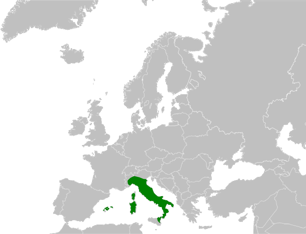 Pseudepidalea balearica distribution map.